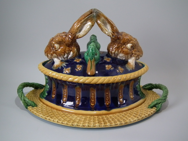 Rare Minton Majolica hare & mallard duck game pie dish...